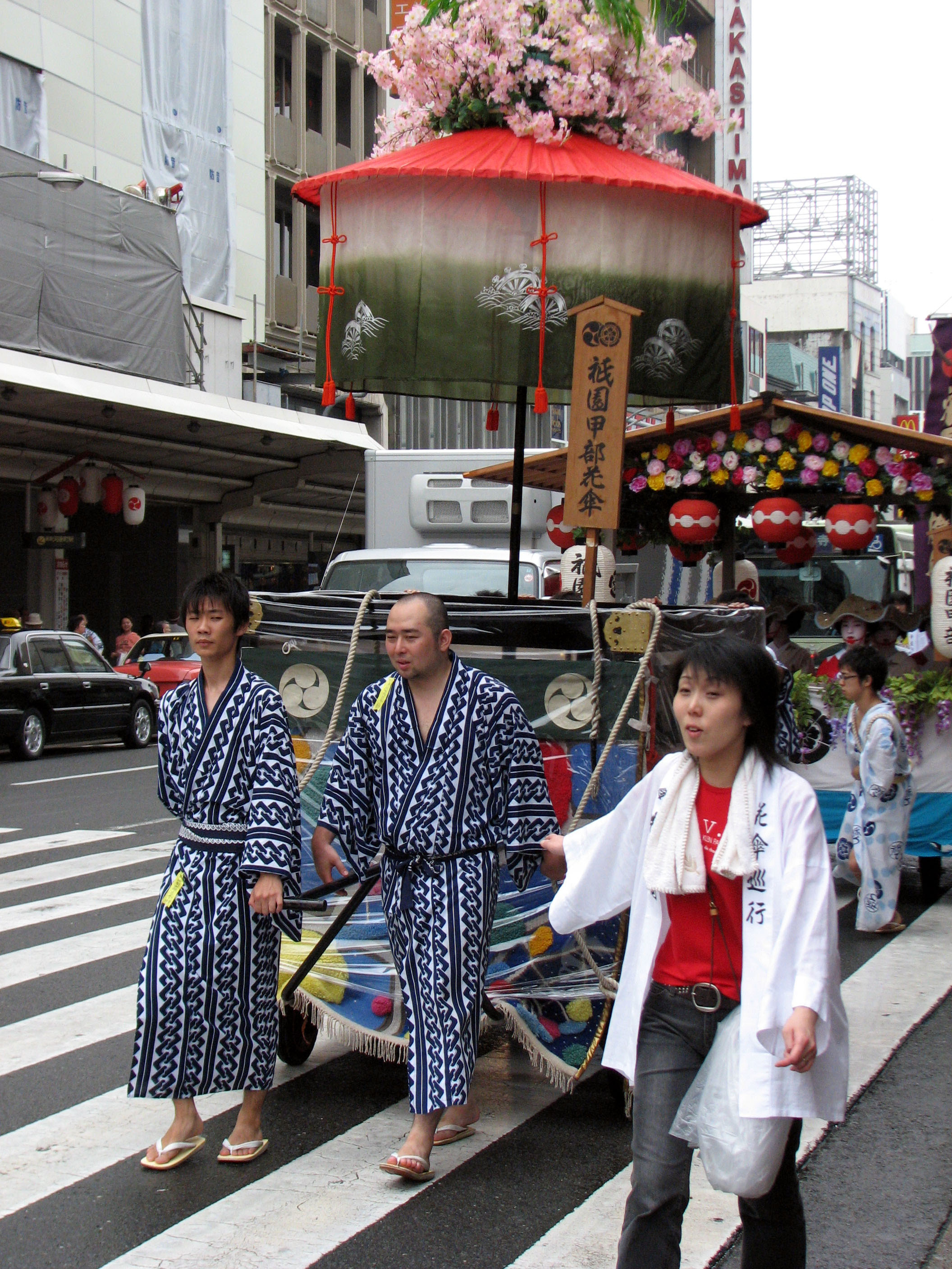 Shijo procession of the Gion Matsuri